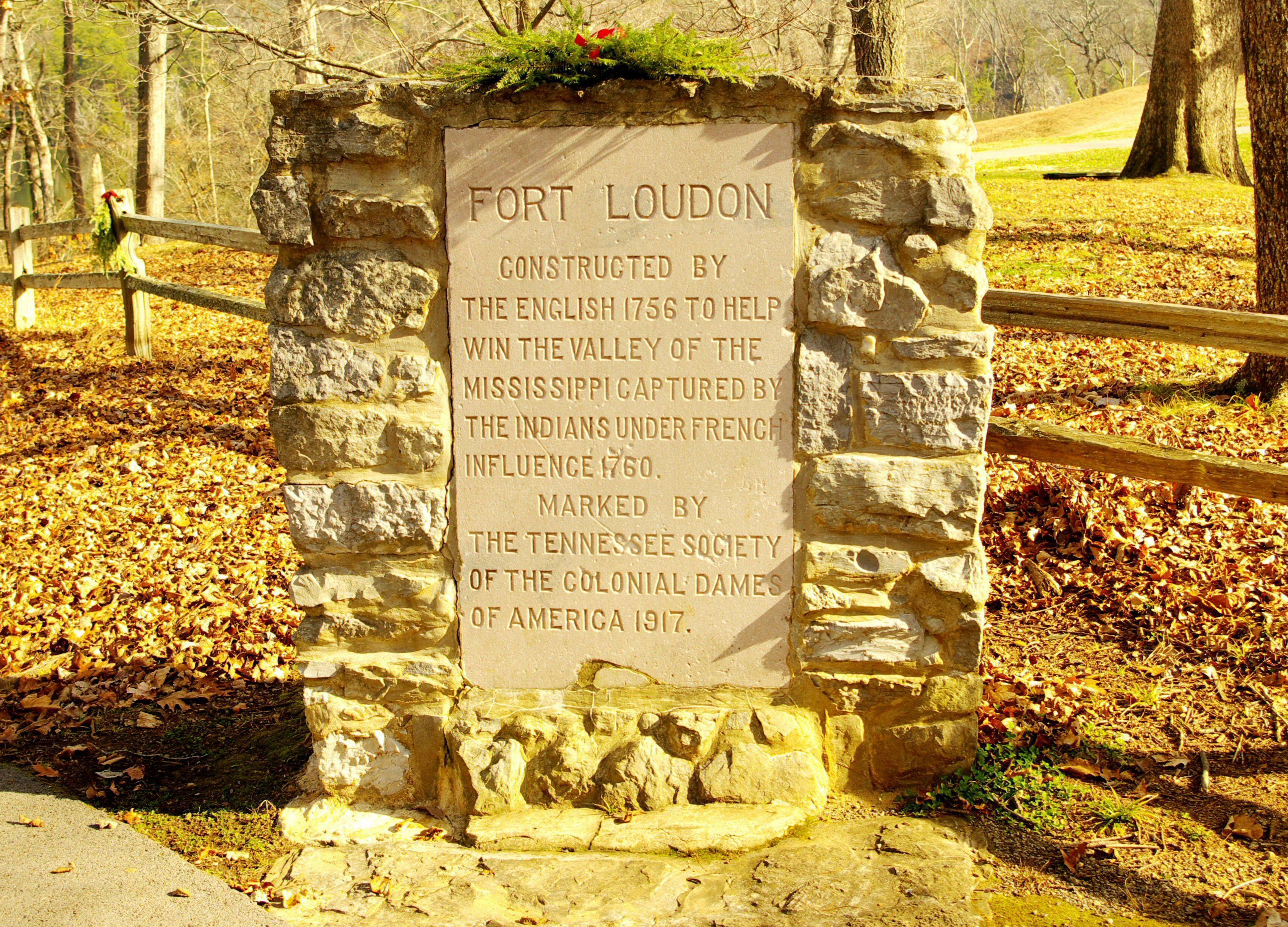 Monument placed by the Tennessee Society of Colonial Dames at the site of Fort Loudoun in Monroe County, Tennessee, United States, in 1917.